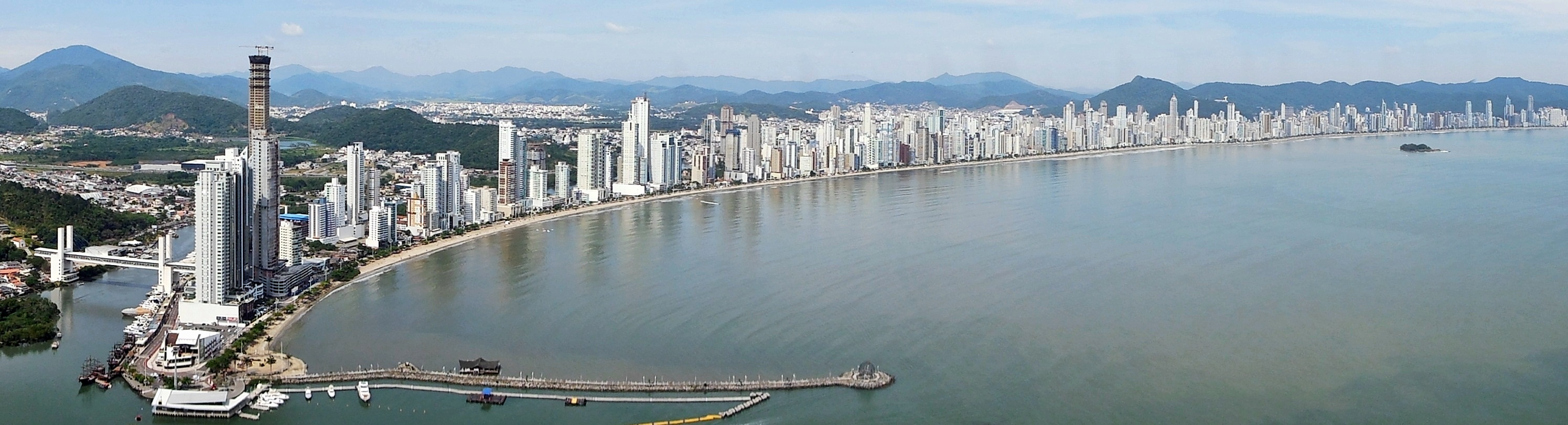 Panoramic of Balneário Camboriú, Santa Catarina, Brazil, seen from of the Unipraias park.